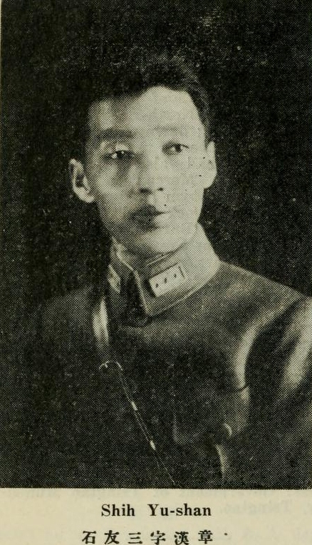 Shi Yousan, Hanzhang (1891 - 1940)